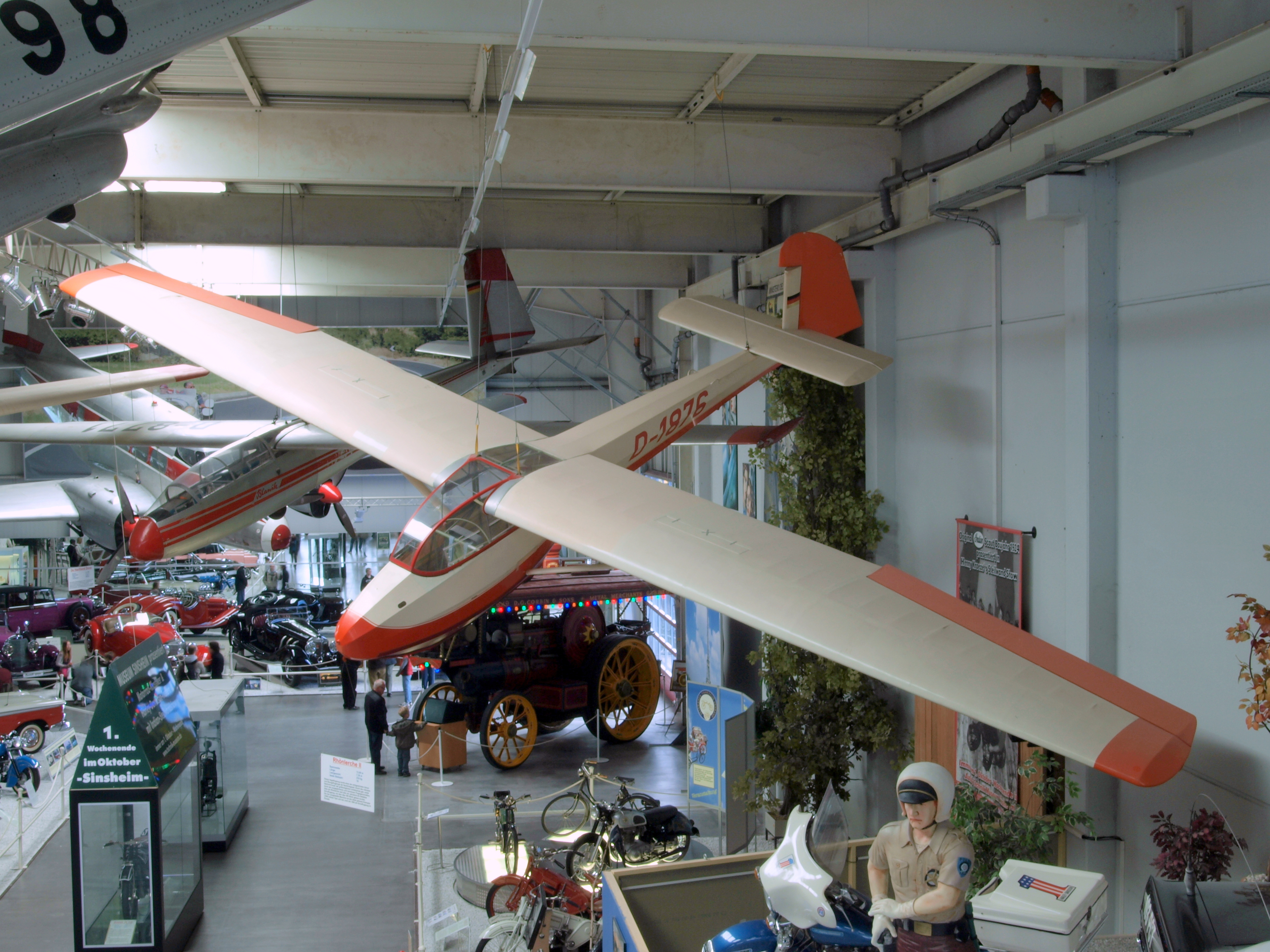 Photographed at the Auto & Technic museum Sinsheim.